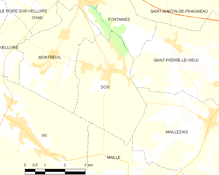 Map of French municipality Doix